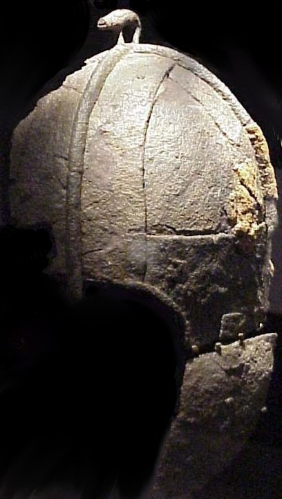 The Pioneer Helm